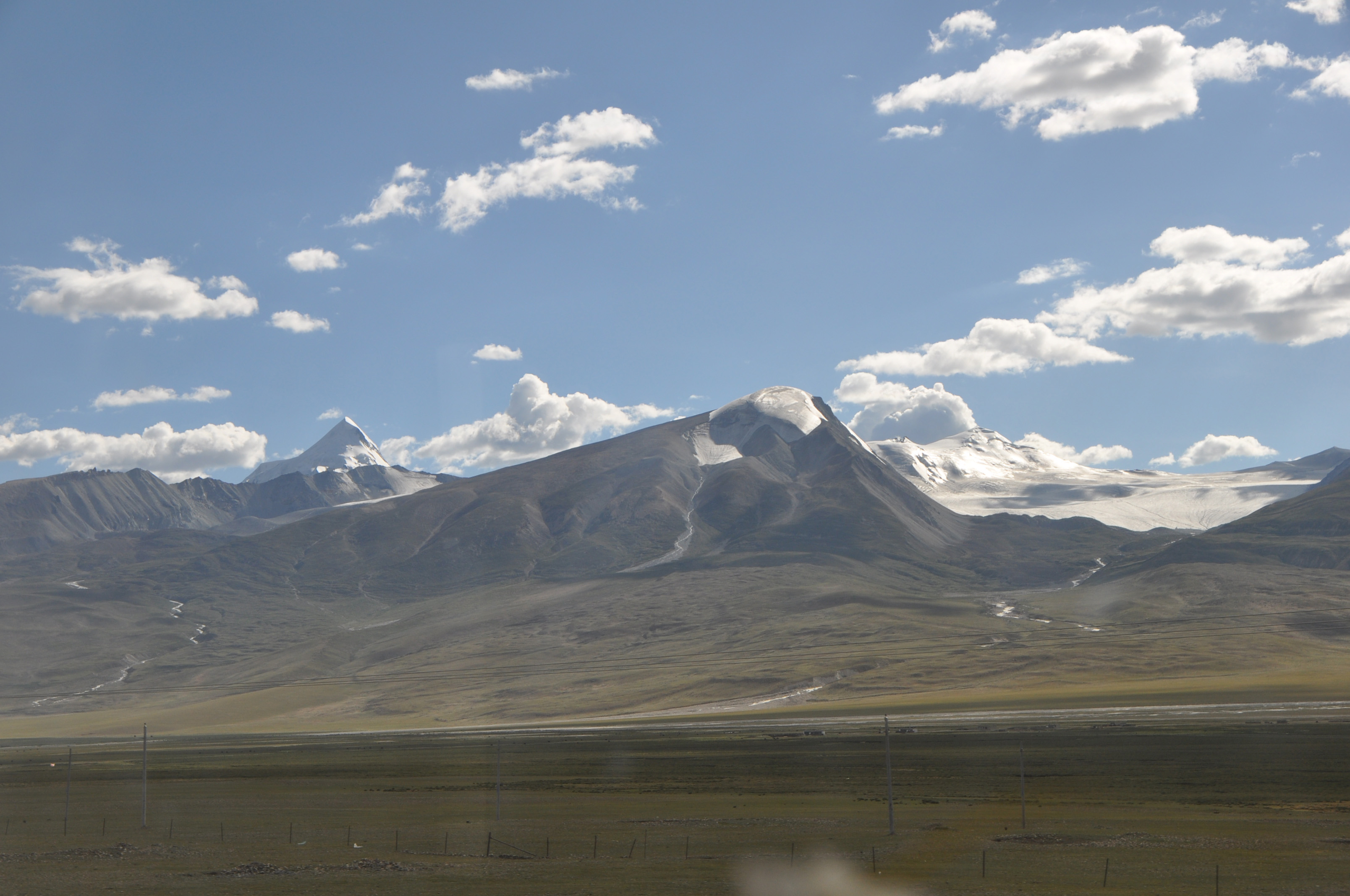 Nyainqentanglha Mountains Viewed from Qingzang Railway Train, Tibet